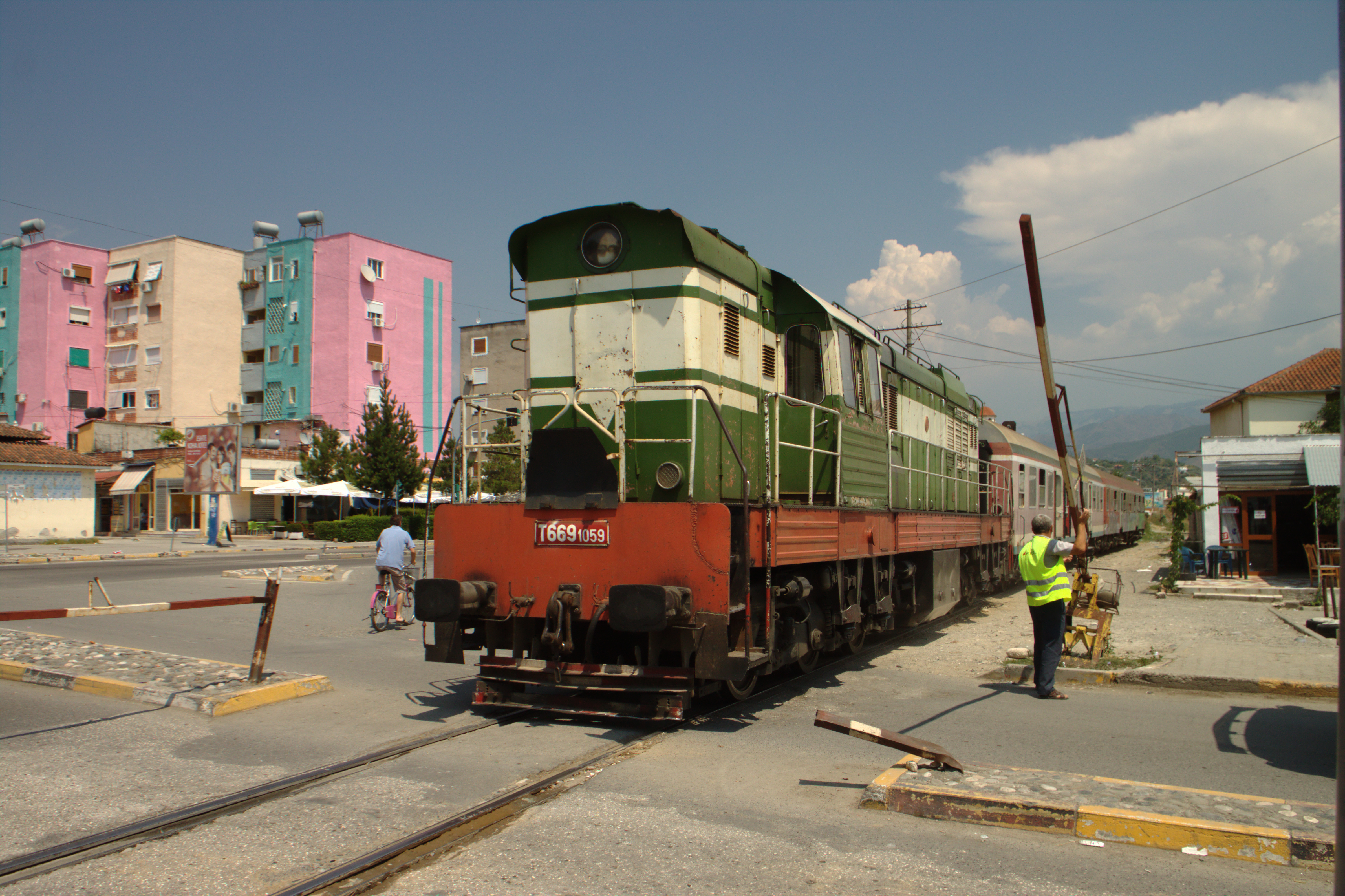 A passenger train crossing a road in Elbasan, Albania